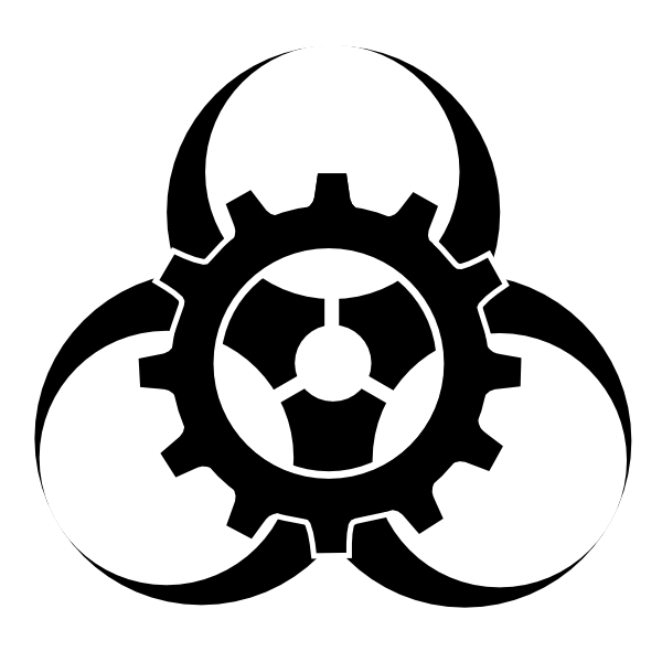 The Biopunk Biogear Logo I made this logo for the site . The design is new as far as I know. The logo is a gear with 12 cogs on top of the biohazard symbol. Signifying that technology has dominion over (the dangers of) biology. The cogs are arranged in the shape of the hour marks on an analog clockface. Their shape is stylized and they have a square top to contrast against the roundness of the biohazard logo. The logo borrows from earlier logos/symbols: The original Dow Chemicals biohazard symbol. Niko Weh's 'Biohazard gears', and two versions the Laibach band logo. The name 'biogear' was suggested by phryk. Its intended use is for Biopunk, but I suspect it can be a good generic biohacker symbol. /Patrik Rönnqvist